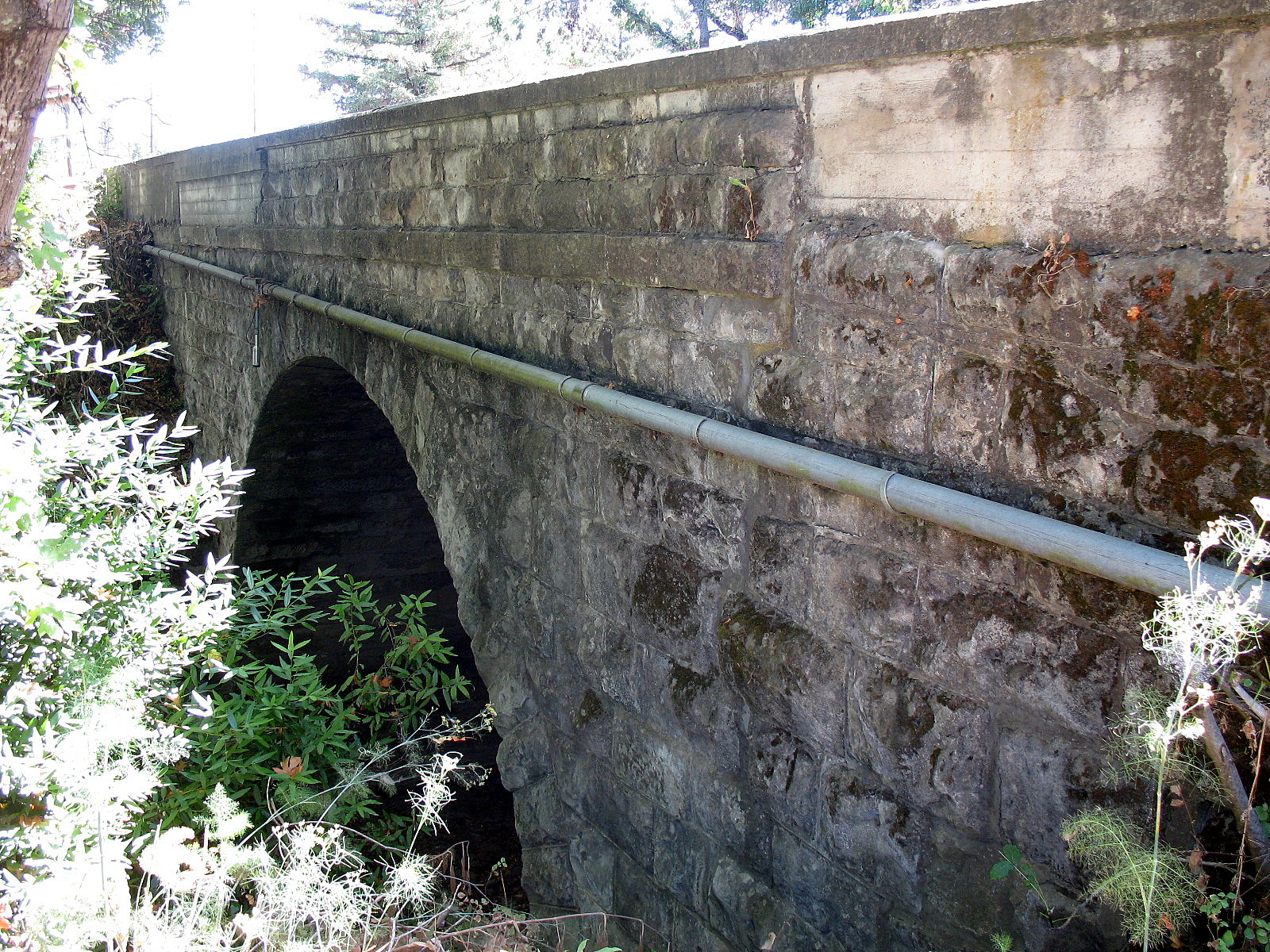 National Register of Historic Places listings in Napa County, California. Carneros Creek Bridge, Old Sonoma Rd., Napa, California